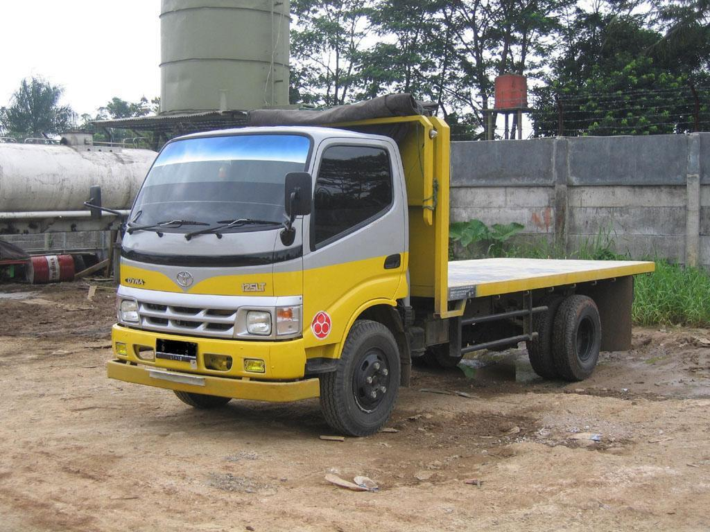 Toyota Dyna 125LT WU340 Flat Bed.